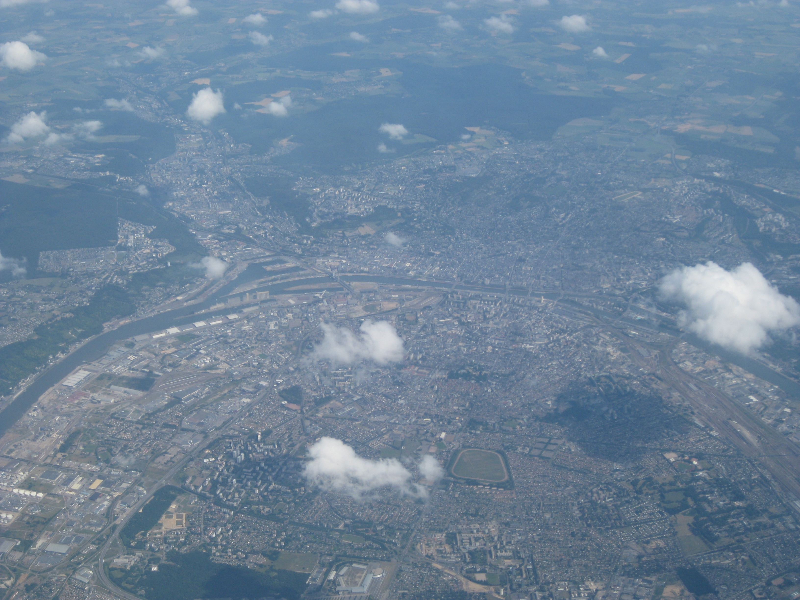 Aerial view of Rouen